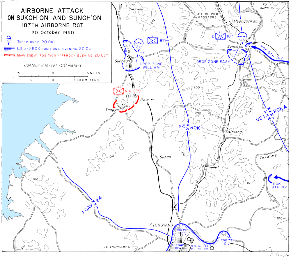 Airborne Attack on Sukch'on and Sunch'on, 187th Airborne RCT, 20 October 1950